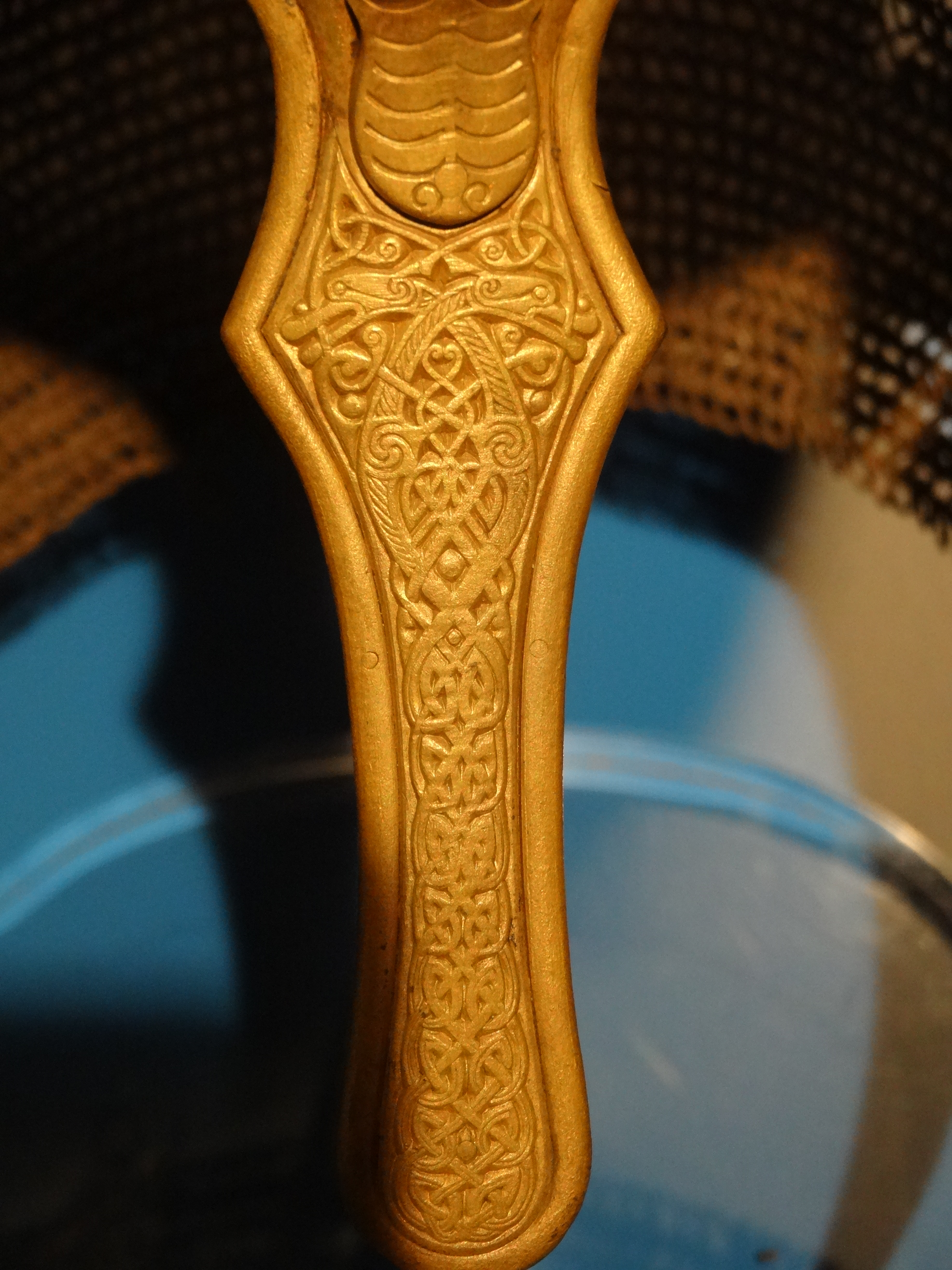 noseguard of Coppergate helmet